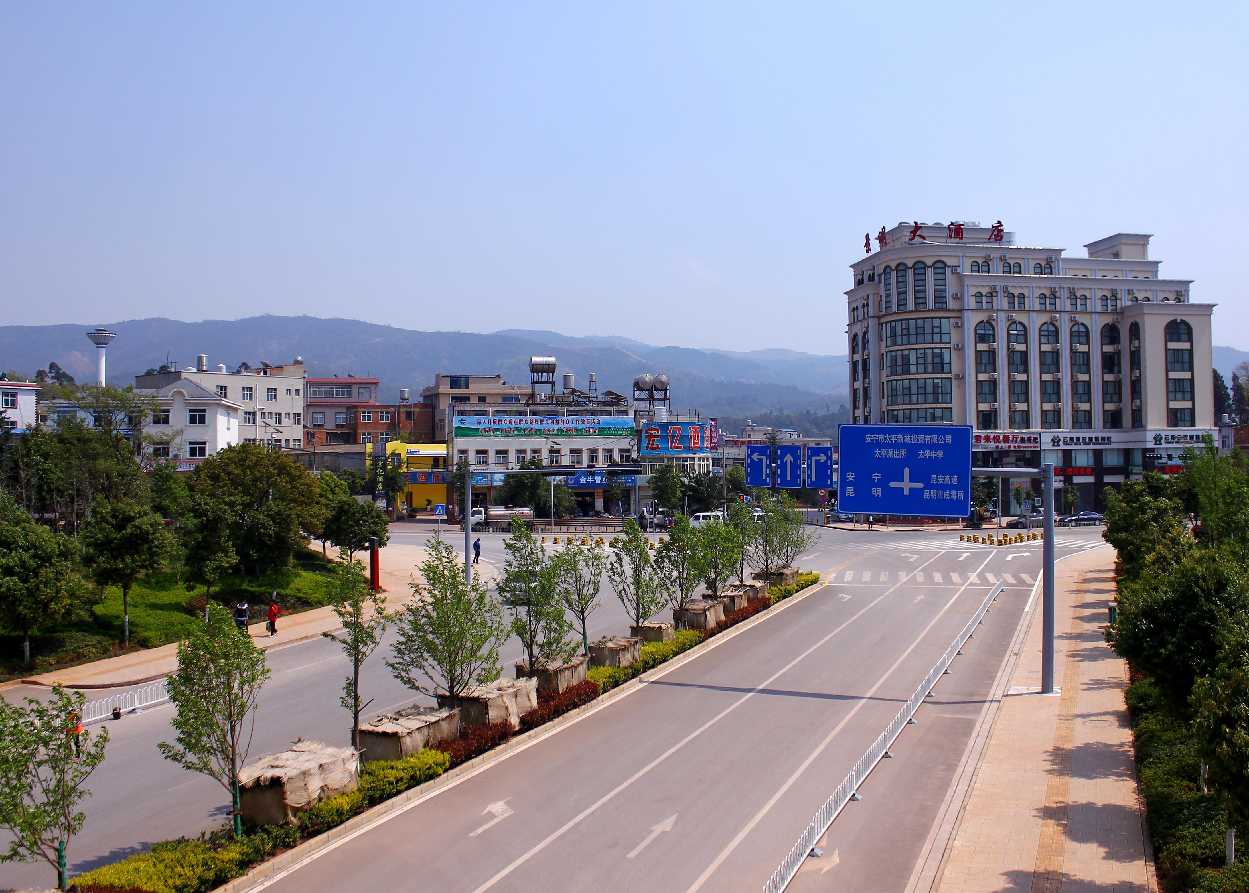 Taiping New City Subdistrict（former Taiping Town）in Anning City，Yunnan Province，China.